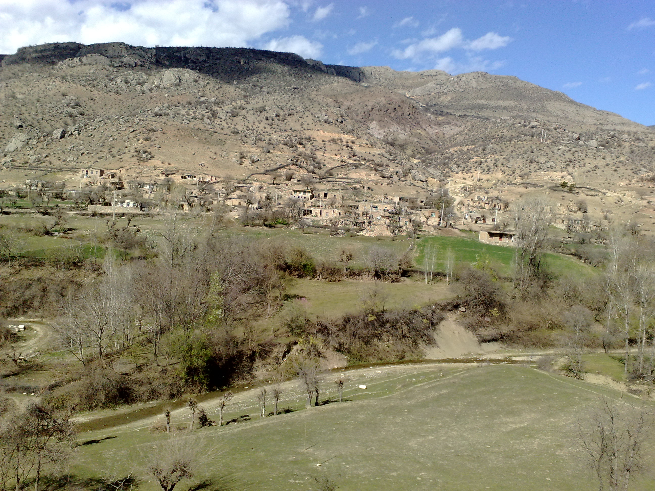 For Masjedloo wiki page.